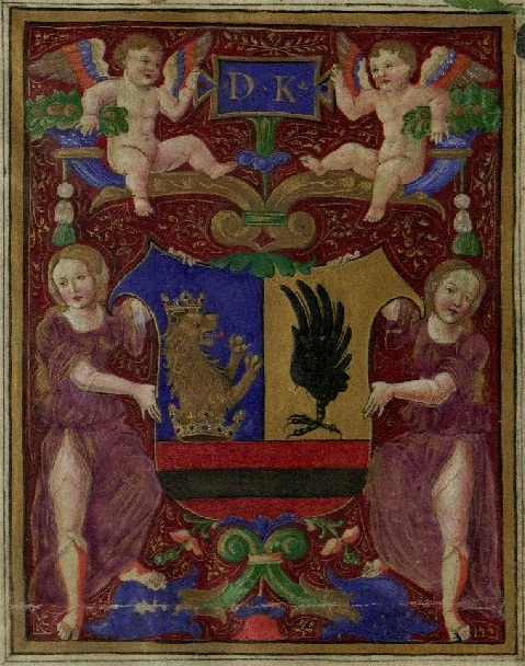 Dorottya Kanizsai's crest